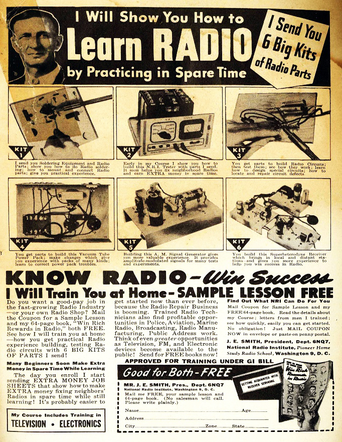 America's Best Comics #20 Page 51 Dec 1946 Radio advertisement